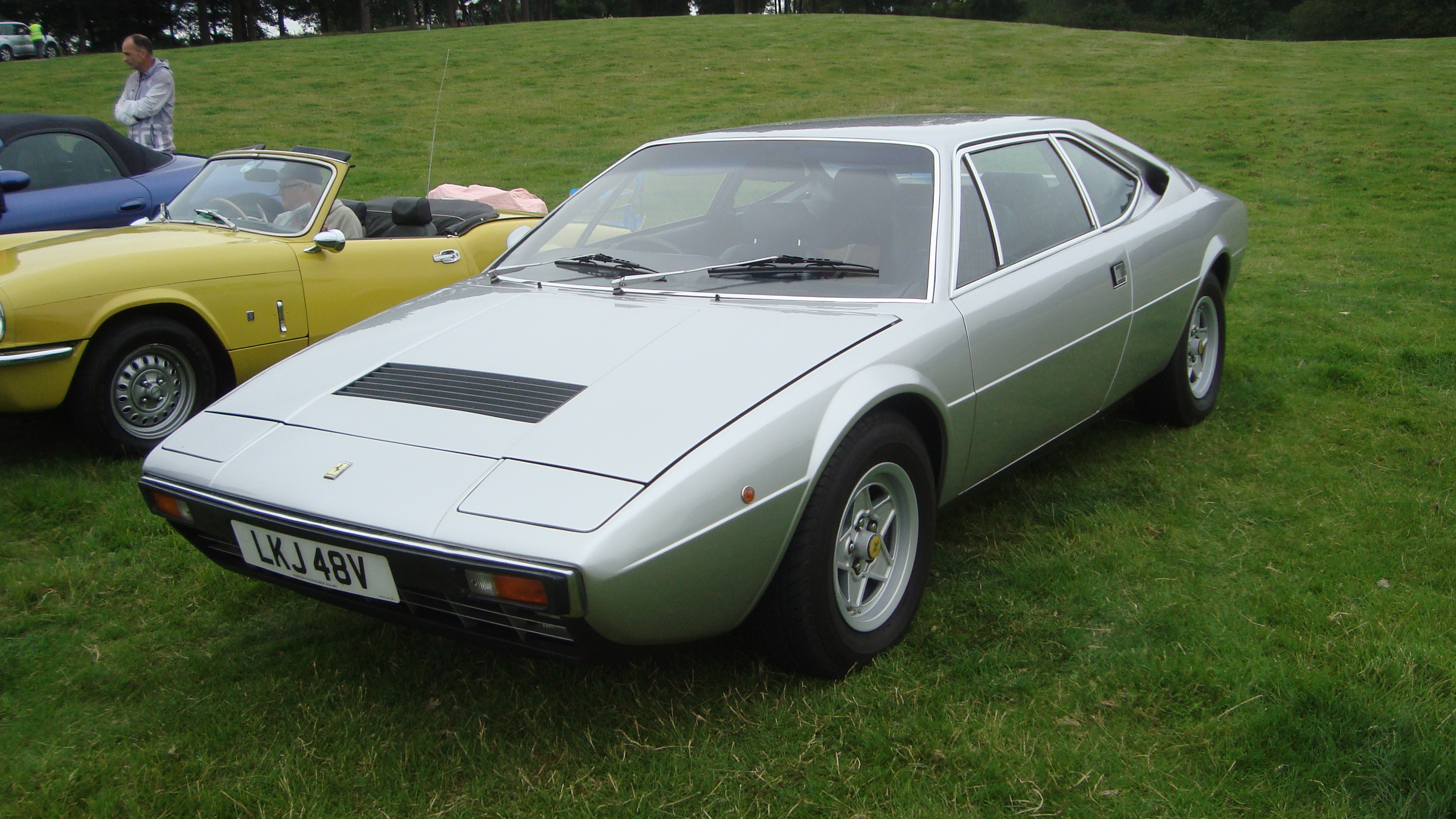 1980 Ferrari 308 GT4 at Capesthorne Hall Classic Car Show and Northern Ford Day, 26 July 2015.